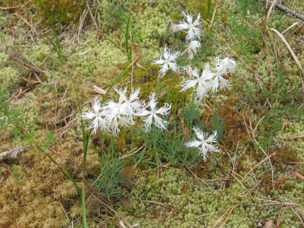 Dianthus arenarius in Saaremaa (Estonia)